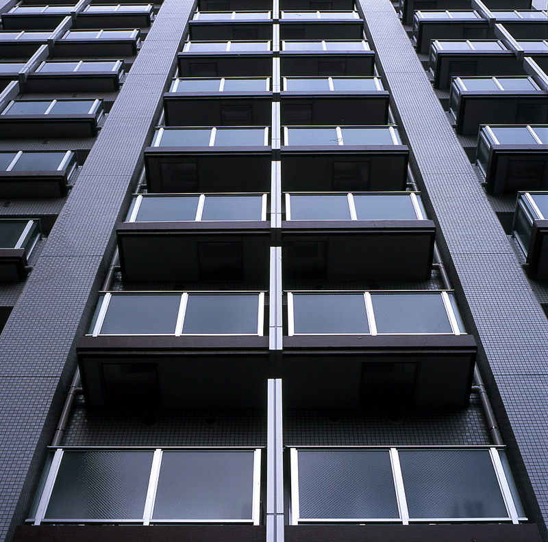 An apartment block in Tokyo, Japan. Photo taken with a hasselblad camara.